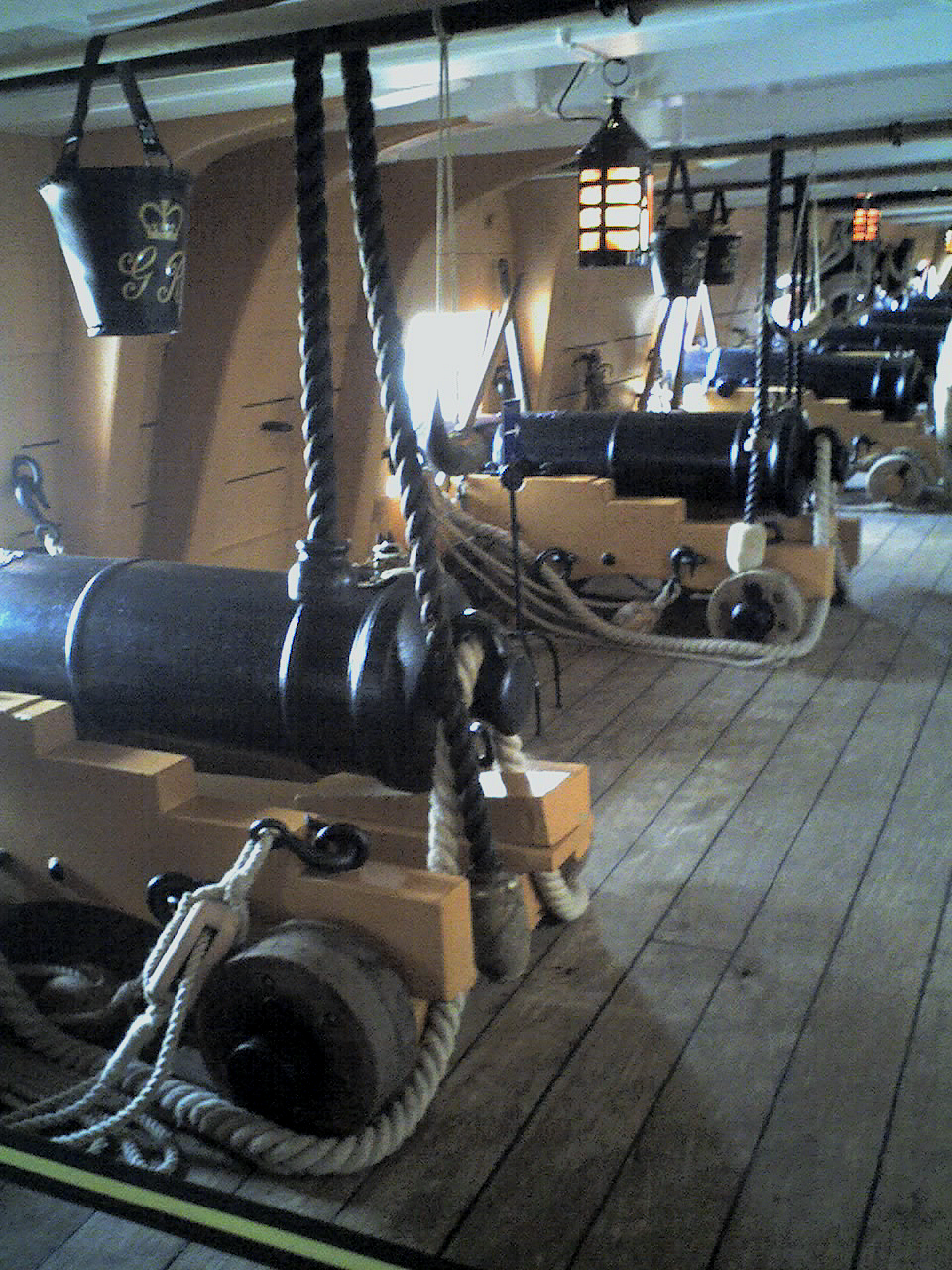 One of the gun decks (probably Upper) on HMS Victory, in Portsmouth Historic Dockyard, taken by me Feb 07. The Land 19:13, 18 February 2007 (UTC)